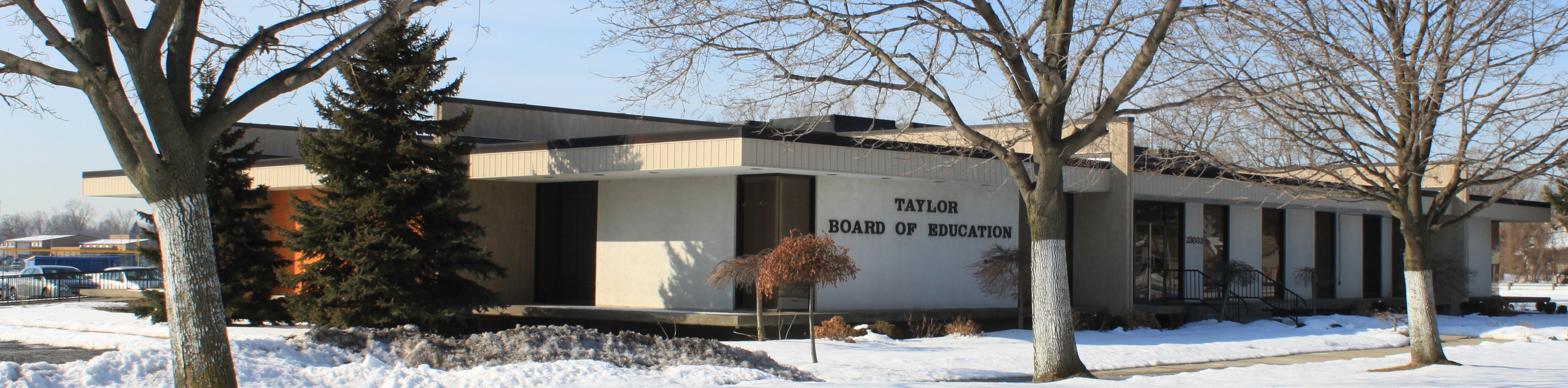 Taylor Michigan Board of Education building, 23022 Northline Road, Taylor, Michigan